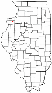 Category:Illinois city locator maps